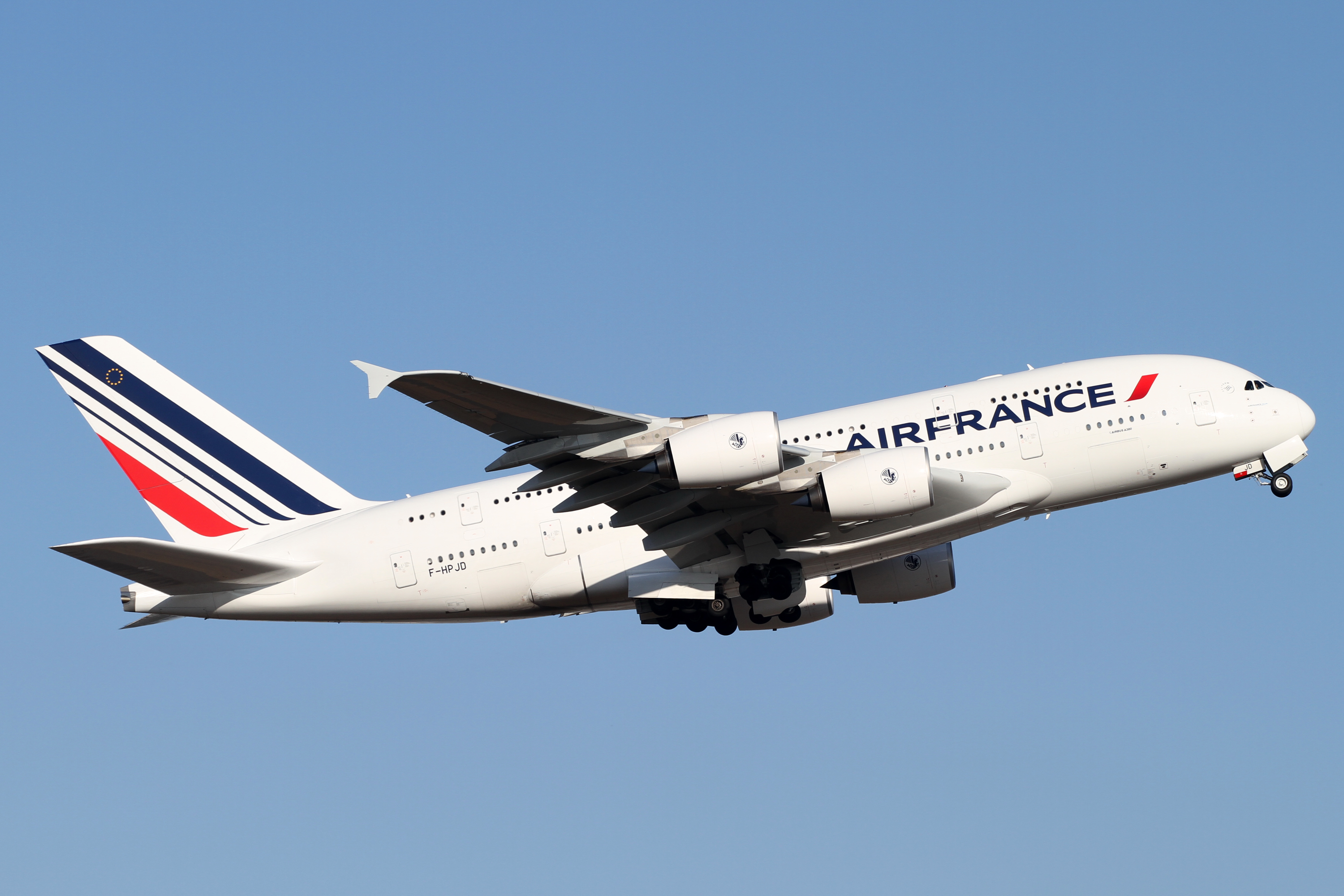 Narita International Airport, Airbus A380-861, c/n:049, Air France